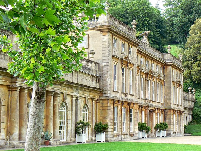 Dyrham Park, South Gloucestershire- east front